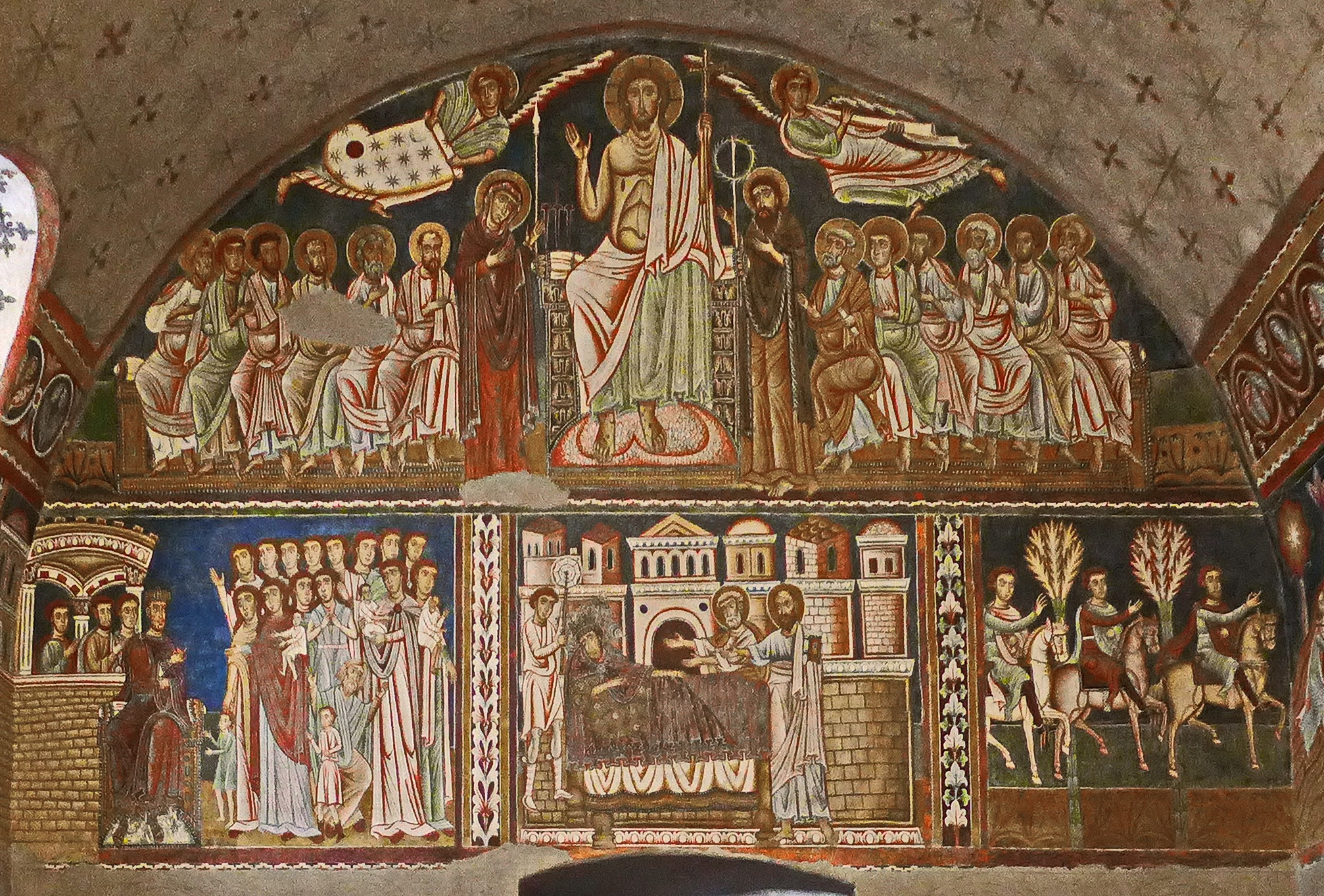 Rome, Basilika Santi Quattro Coronati, Chapel of Sylvester